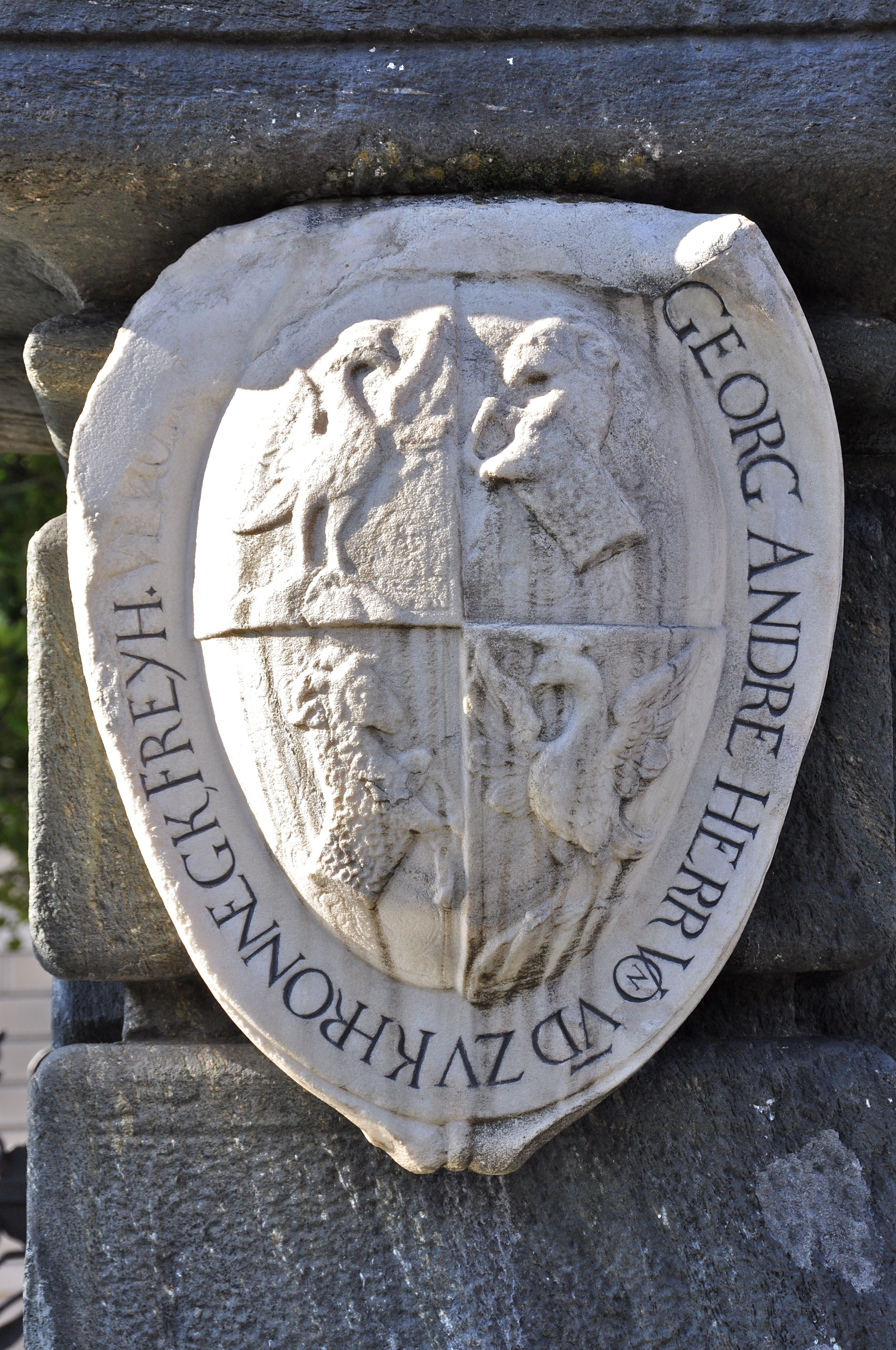 Stone relief of the coat of arms for the burgrave baron Georg André Reichsgraf von und zu Kronegg on the south side of the Lindwurm fountain`s base on Neuer Platz, inner city of Carinthia`s capital Klagenfurt, Carinthia, Austria, EU